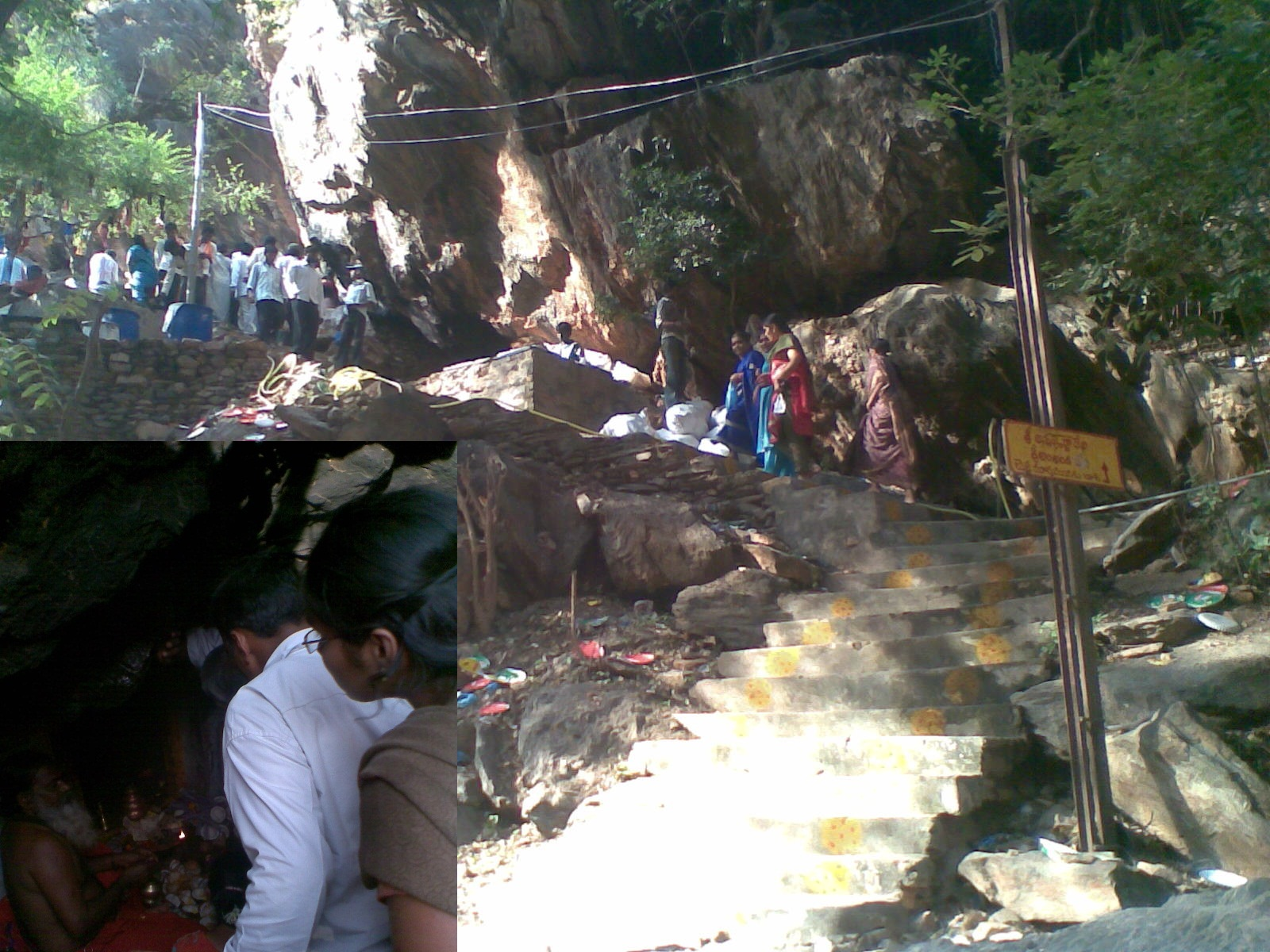 Akanda jyothi at Bhairavakona, Prakasam district, A.P. India.